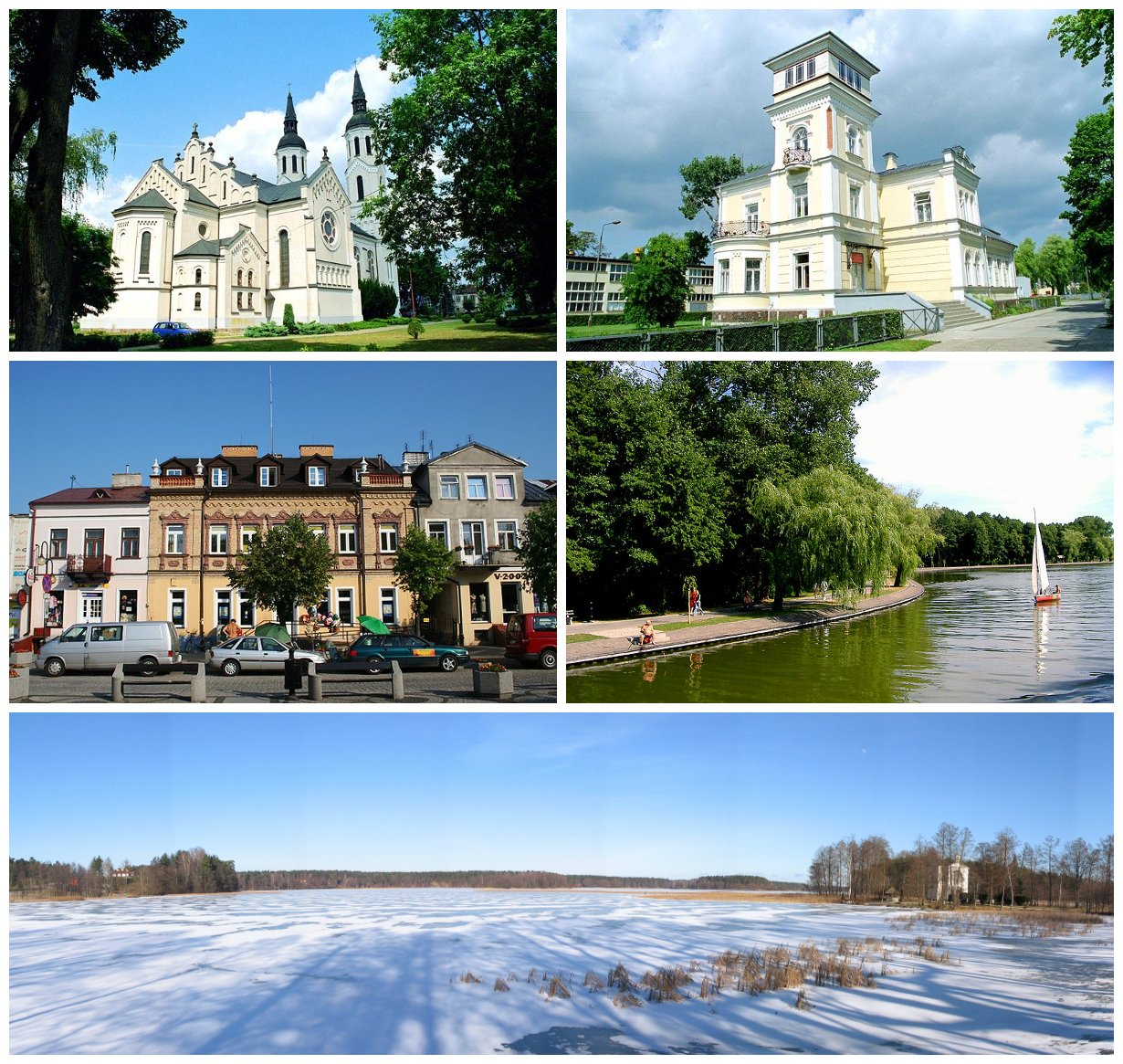 Augustów (Poland): Basilica of Sacred Heart, Water Authority, Zygmunta Augusta Market Square, Netta River, Studzieniczne Lake